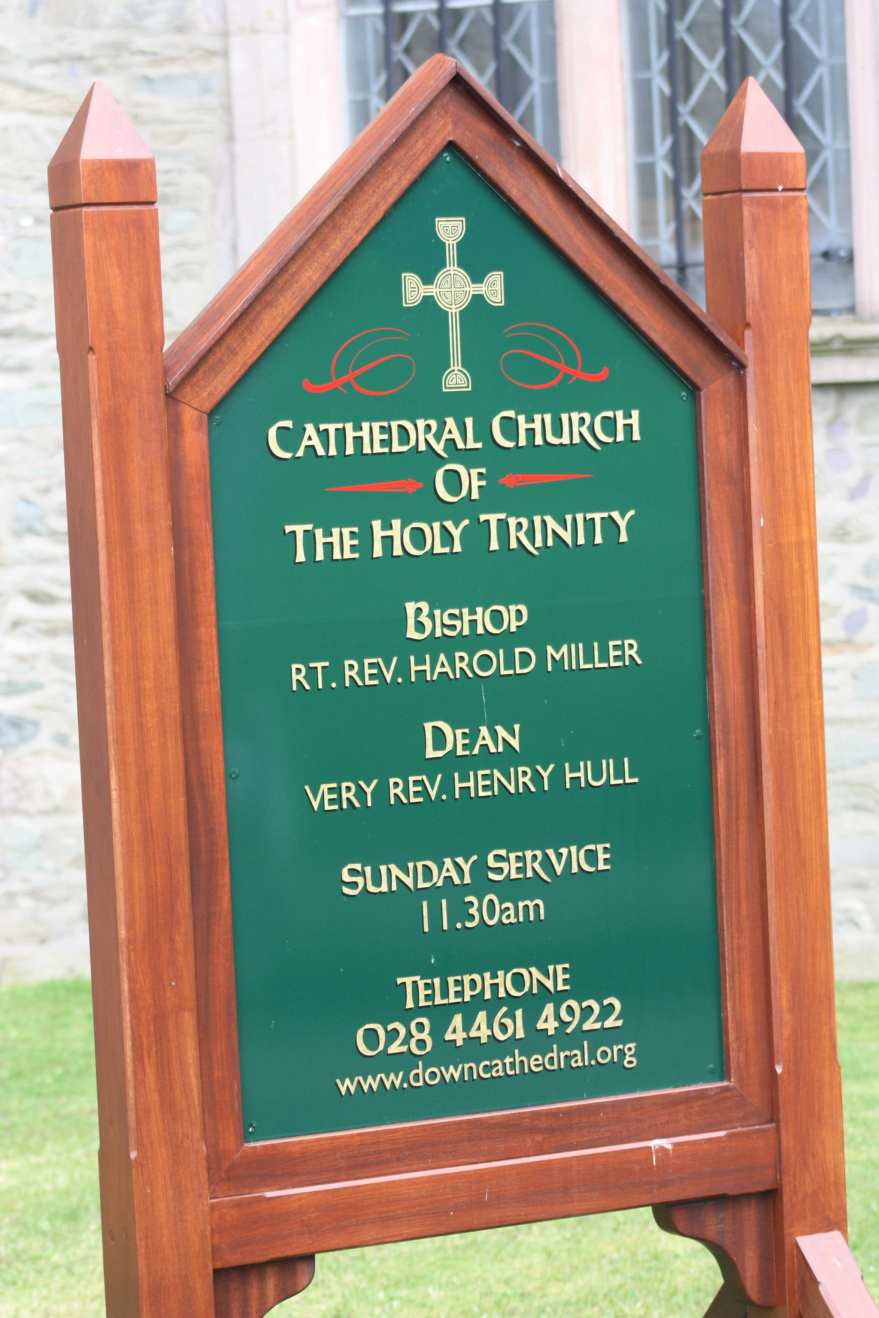 Down Cathedral, The Mall, English Street, Downpatrick, County Down, Northern Ireland, August 2009